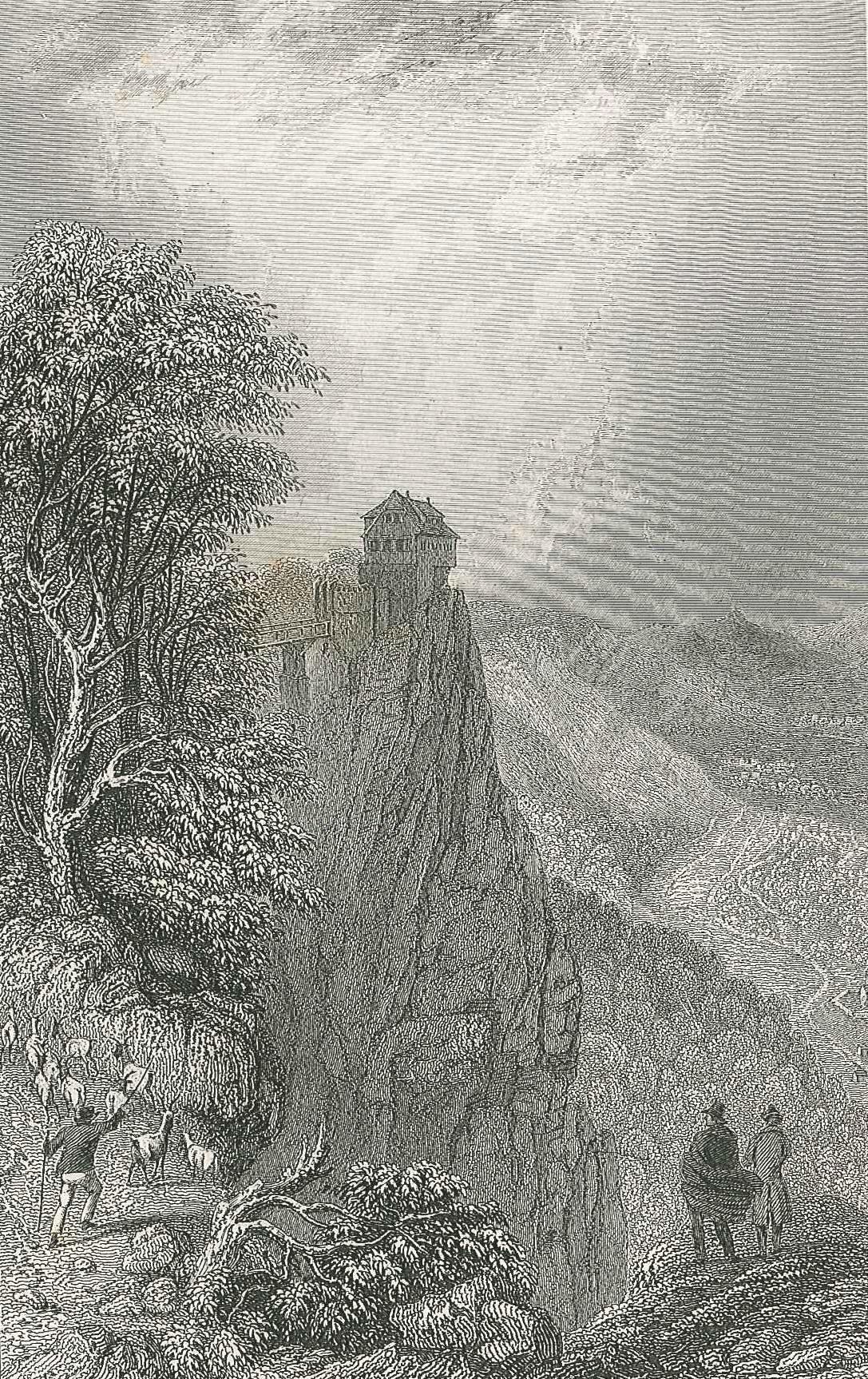 Forsthaus Lichtenstein im frühen 19. Jahrhundert